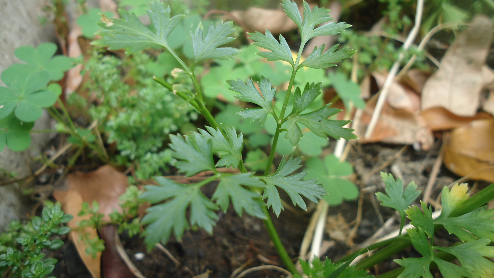 Petroselinum crispum.